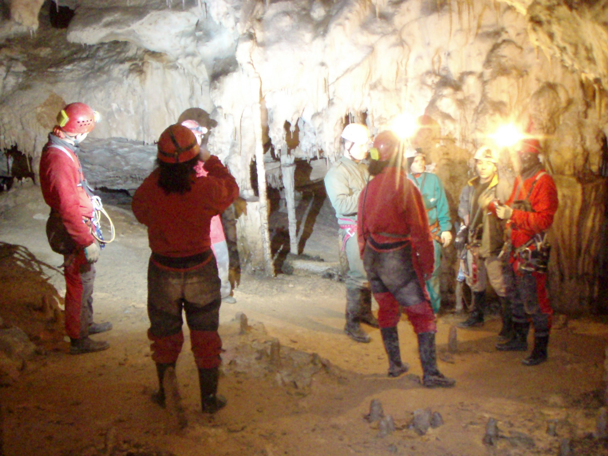 Caving in the Cave of Coventosa, in the municipality of Arredondo (Cantabria, Spain).